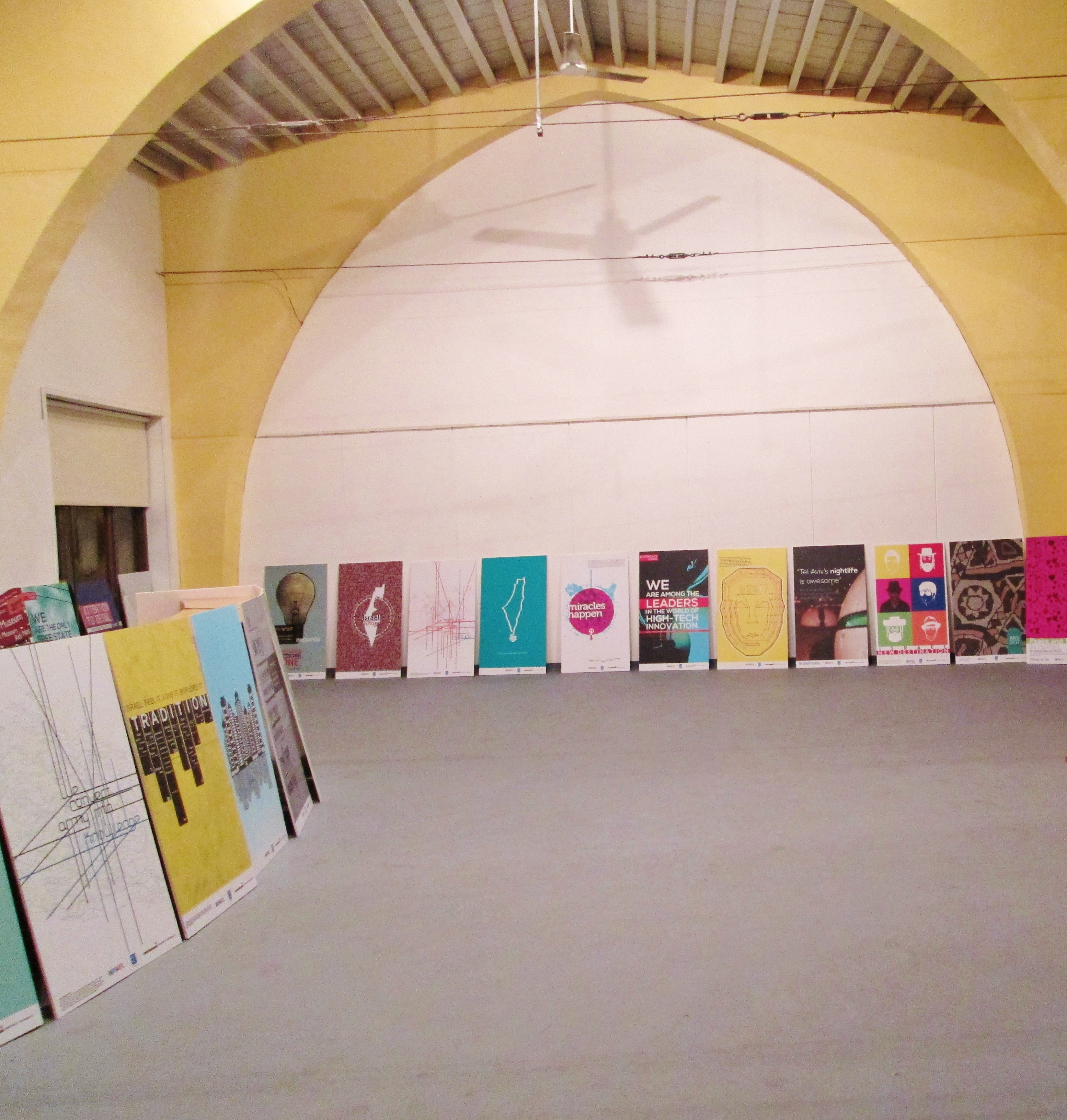 Public exhibition about Israel by the students of Frederick University Nicosia in Greek and English in Cyprus. Ledra Steet Peace Center.